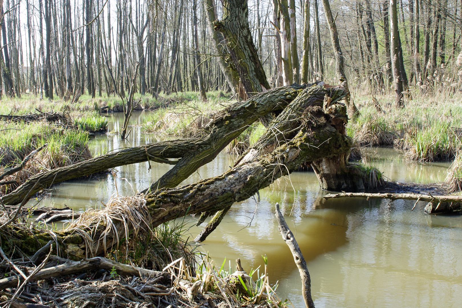 Zakole Wawerskie - Zerzeń Canal (Ditch) and an alder swamp west of Kobryńska Street. Zerzeń, Wawer, Warsaw, Poland.